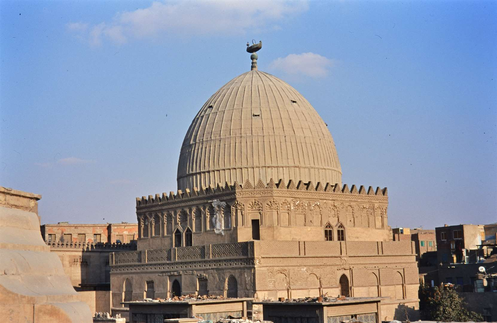 Mausoleum of Imam al-Shafi'i on the Southern Cemetry of Cairo